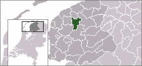 Location of Leeuwarden